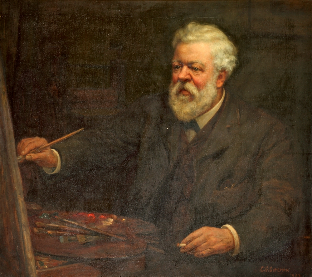 Painting of artist John Finnie, on display in the Walker Art Gallery in Liverpool.